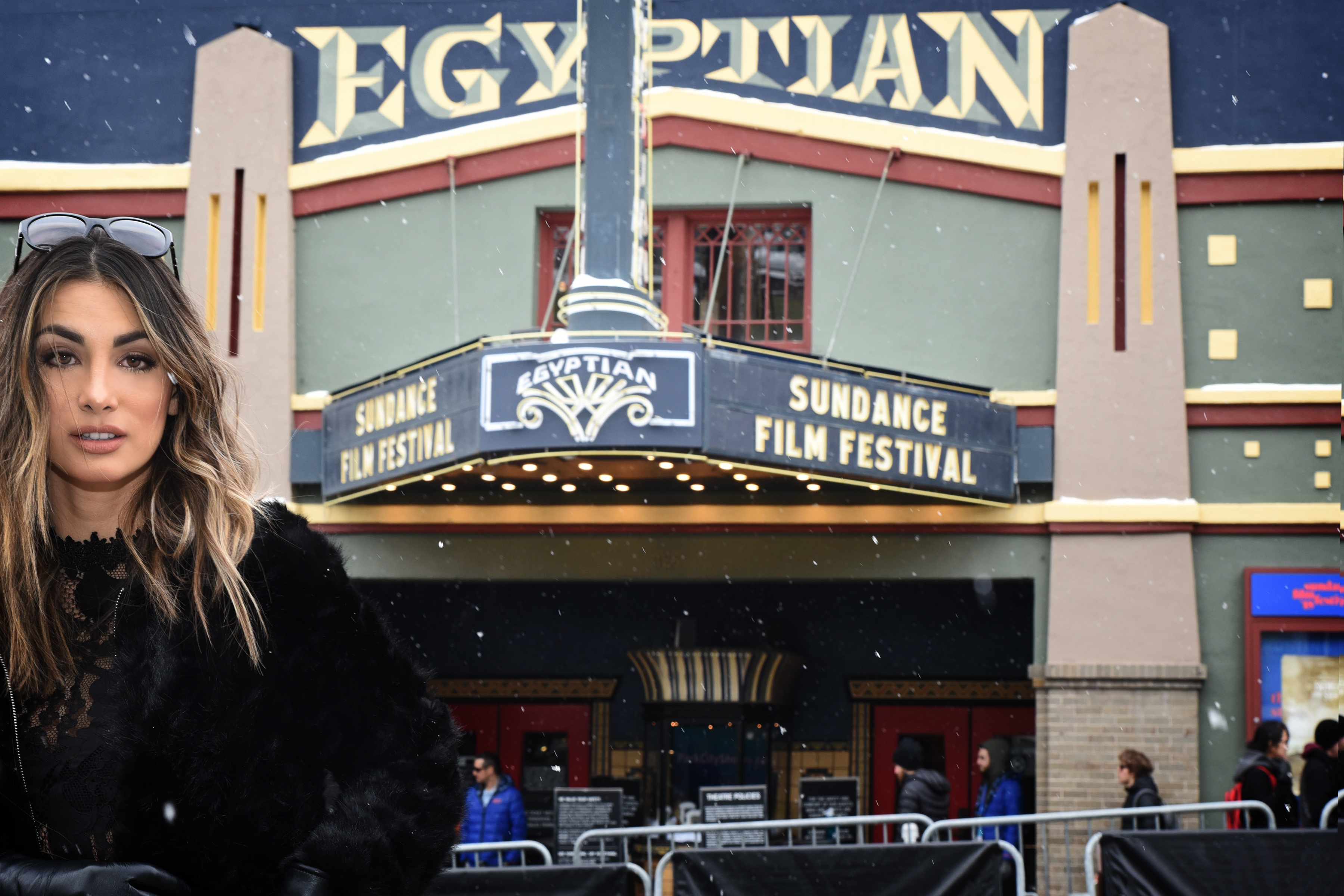 The Egyptian Theater During the Sundance Film Festival January 2018 - Photo by Glenn Francis of